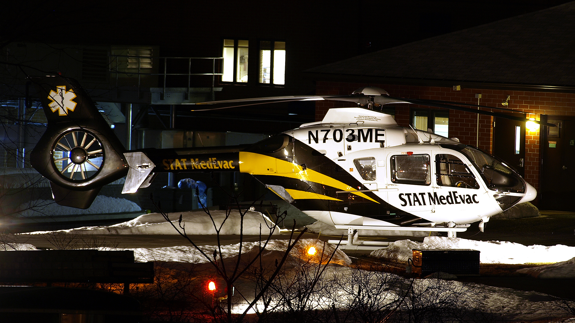 STAT Medevac 3 on the pad at UPMC-Passavant Cranberry Township, Butler County, Pennsylvania.